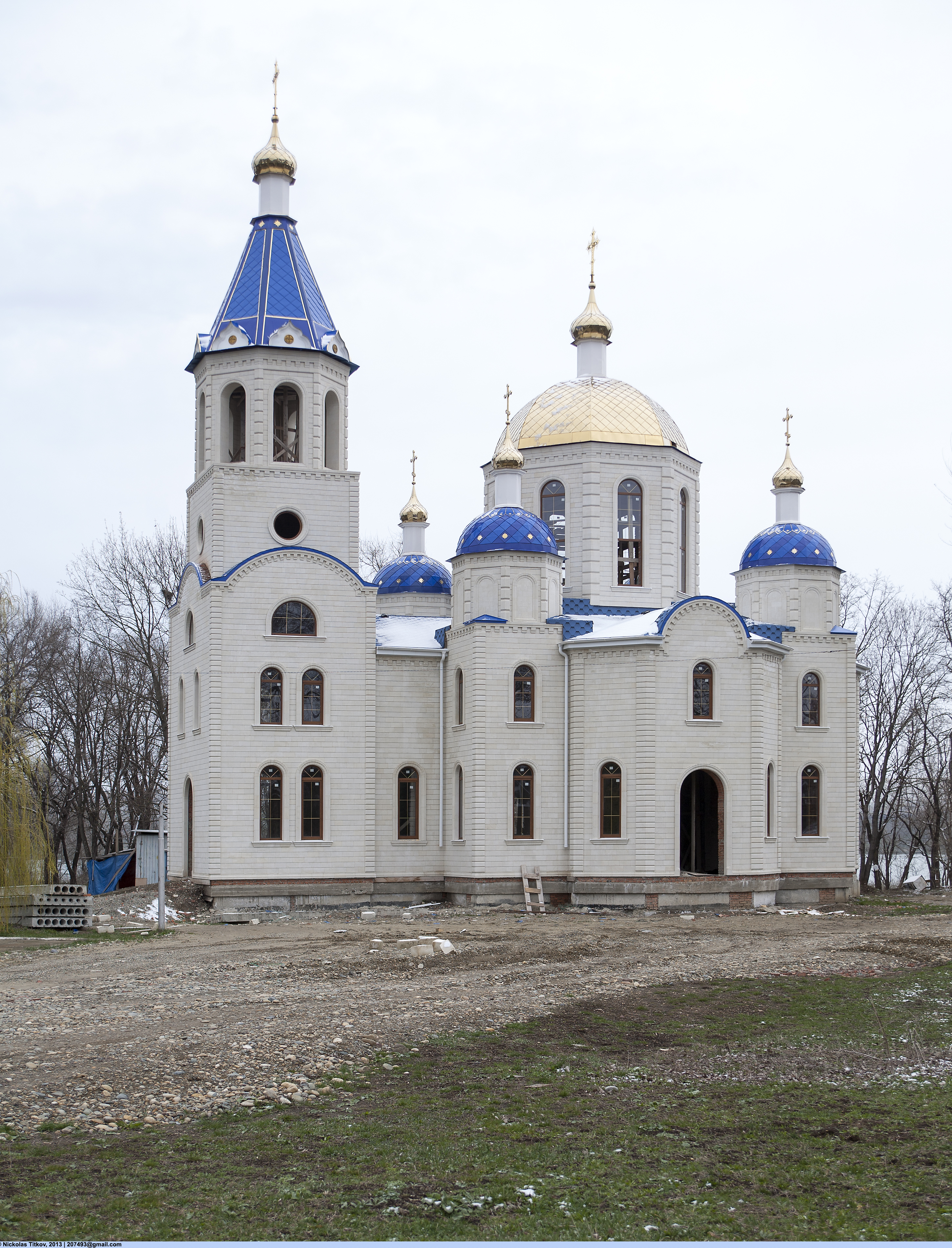 Церковь Казанской иконы Божией Матери села Сенгилеевское